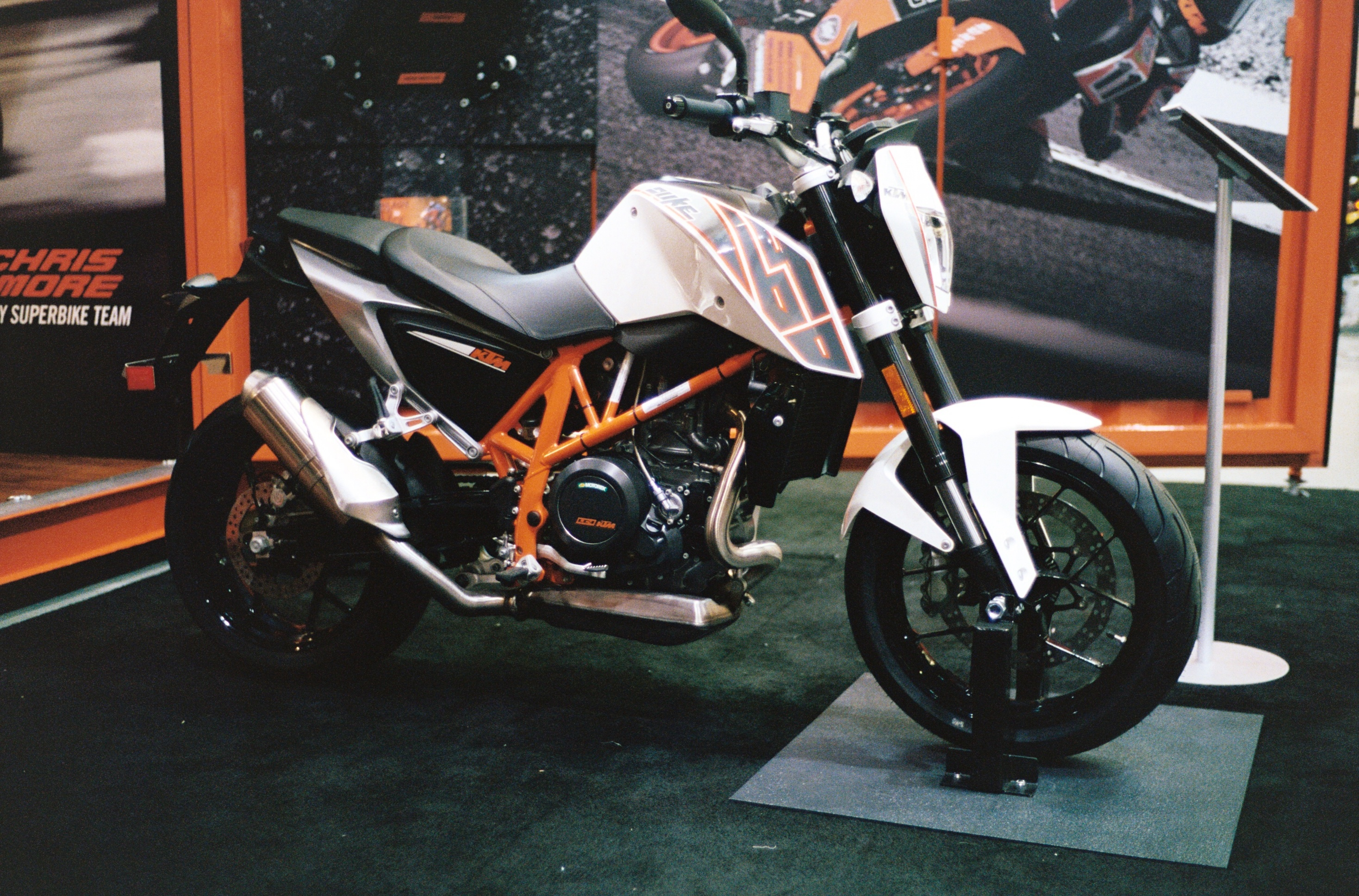 2014 Seattle International Motorcycle Show